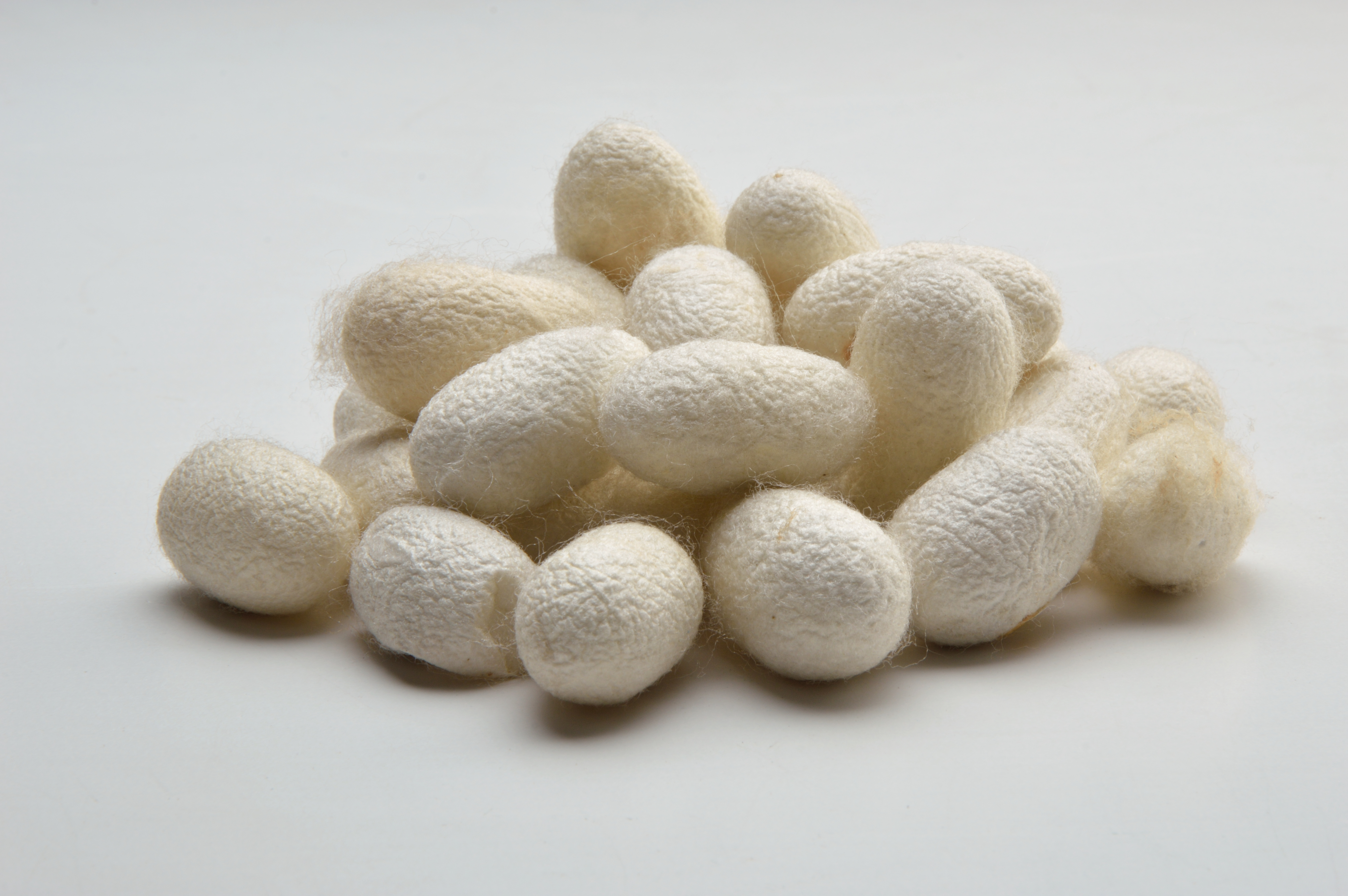 Cocoons collected from different parts of Assam, India.